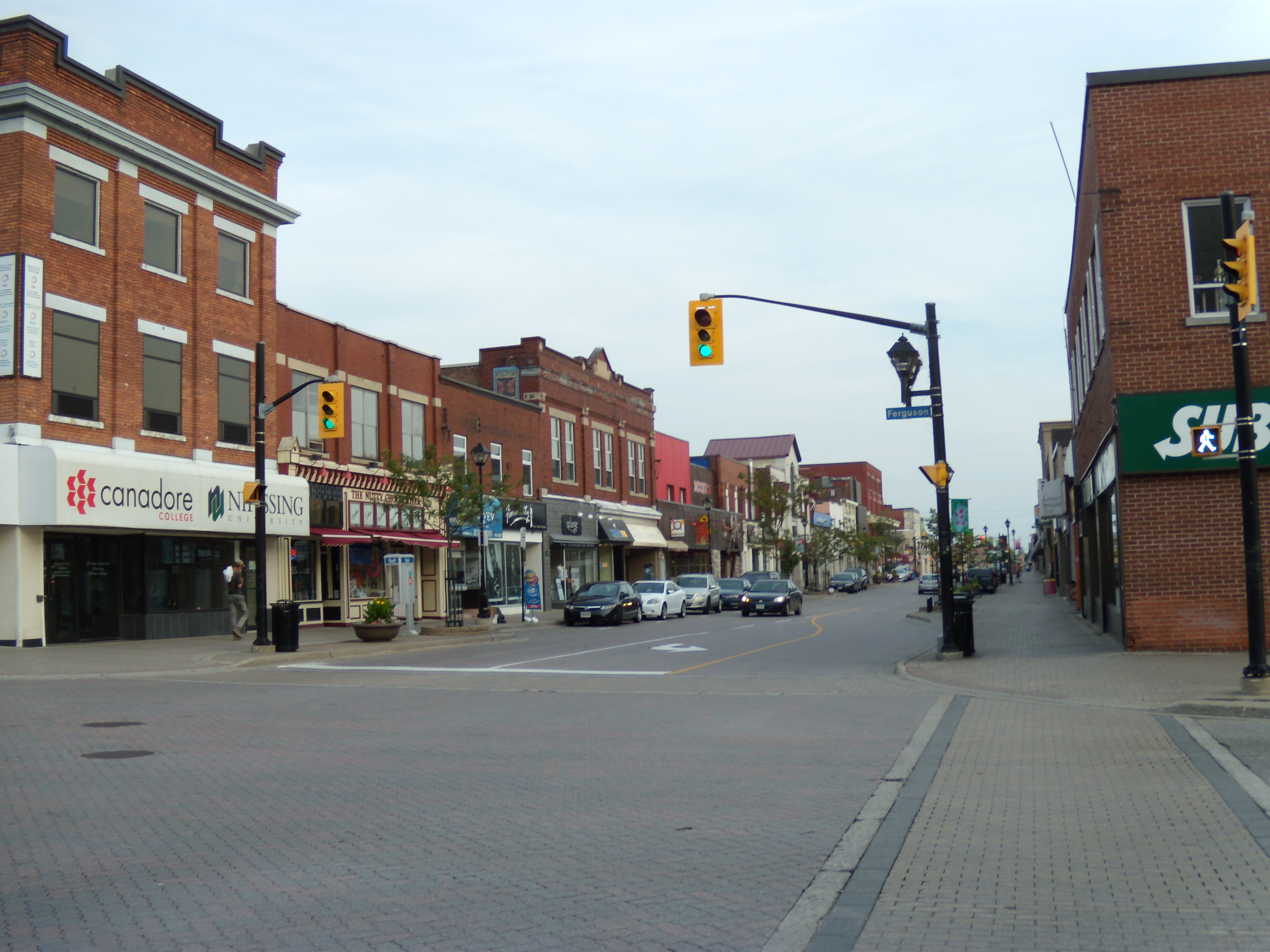 Main St at Ferguson, North Bay Ontario. August 2012